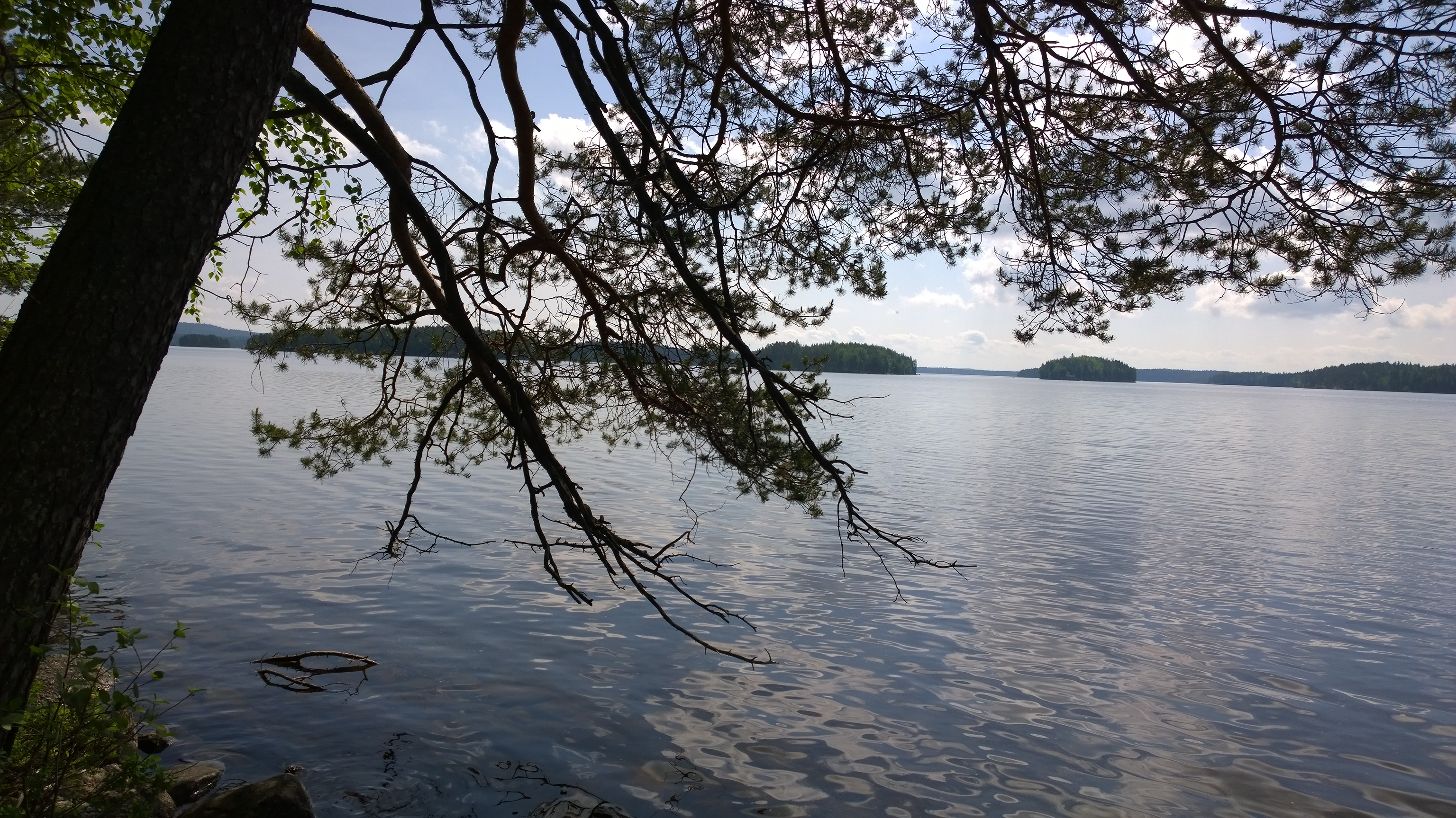 Scenery of the Lake Keitele, southward of the island Pynnönsaari towards the village of Sumiainen.